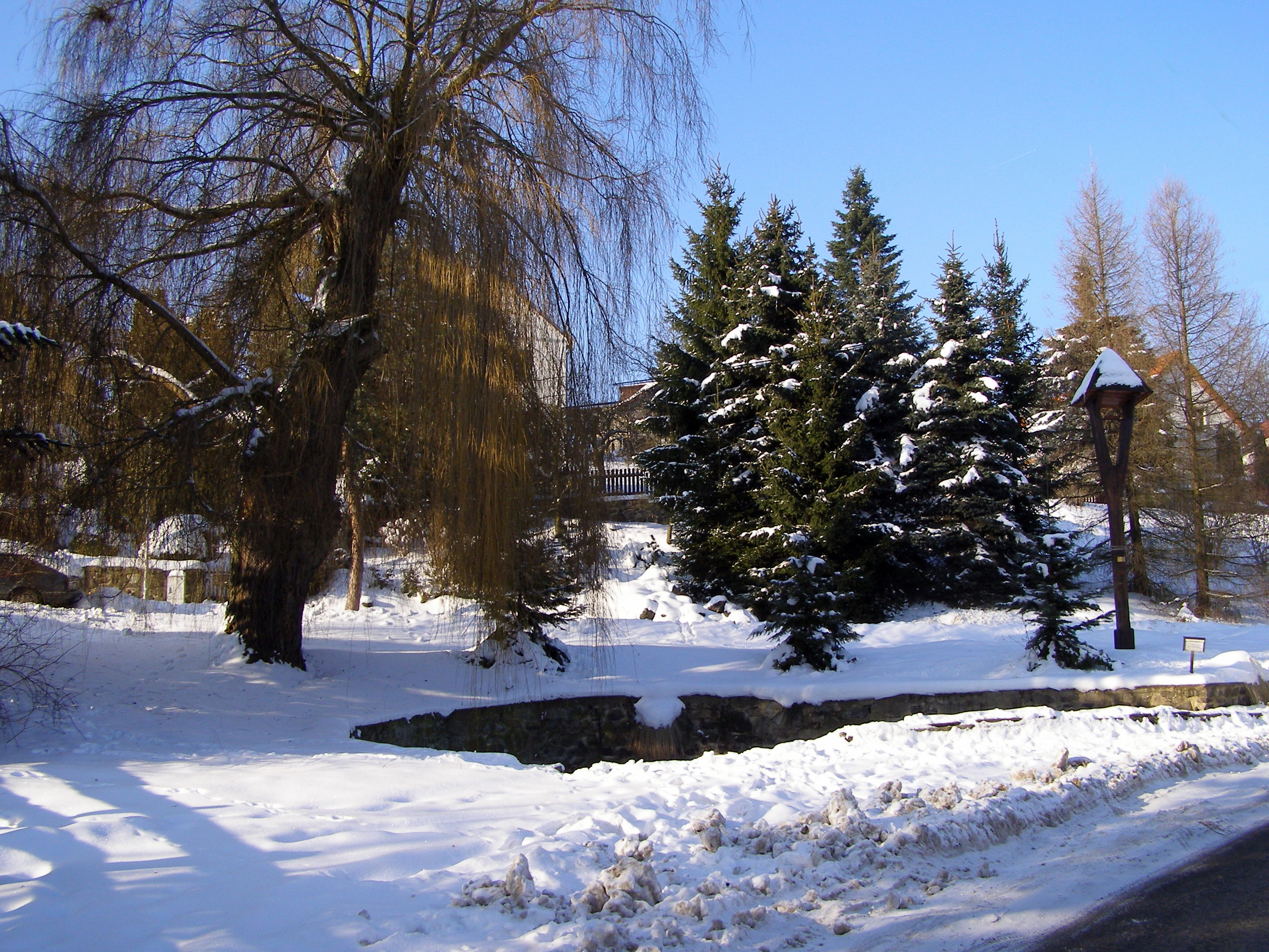 Common in village of Lbin (Litoměřice District, Czech Republic) in winter